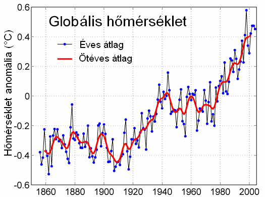 Instrumental Temperature Record 150 years